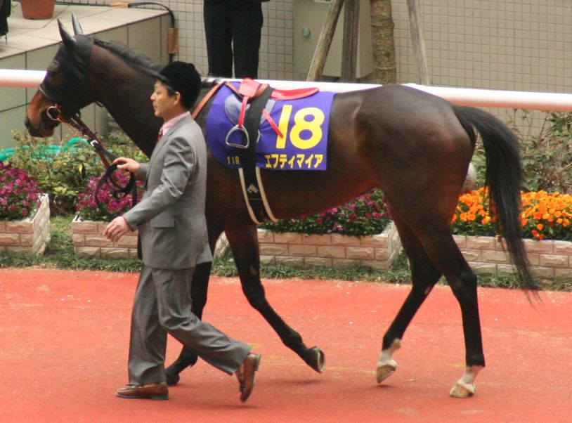 F T Maia